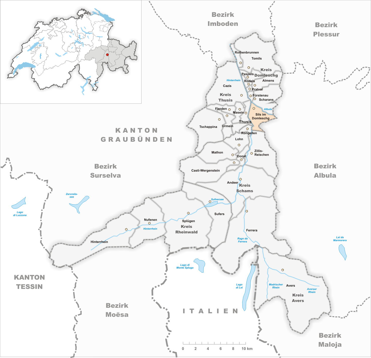 Municipality Sils im Domleschg